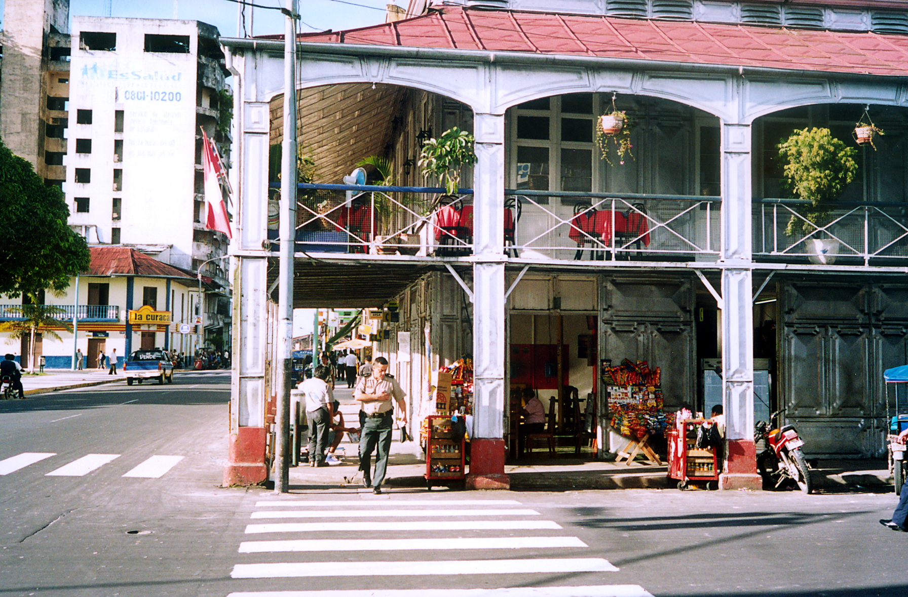 Iquitos, Peru. Casa de Hierro. Prefabricated house, designed by Belgian architect Joseph Danly